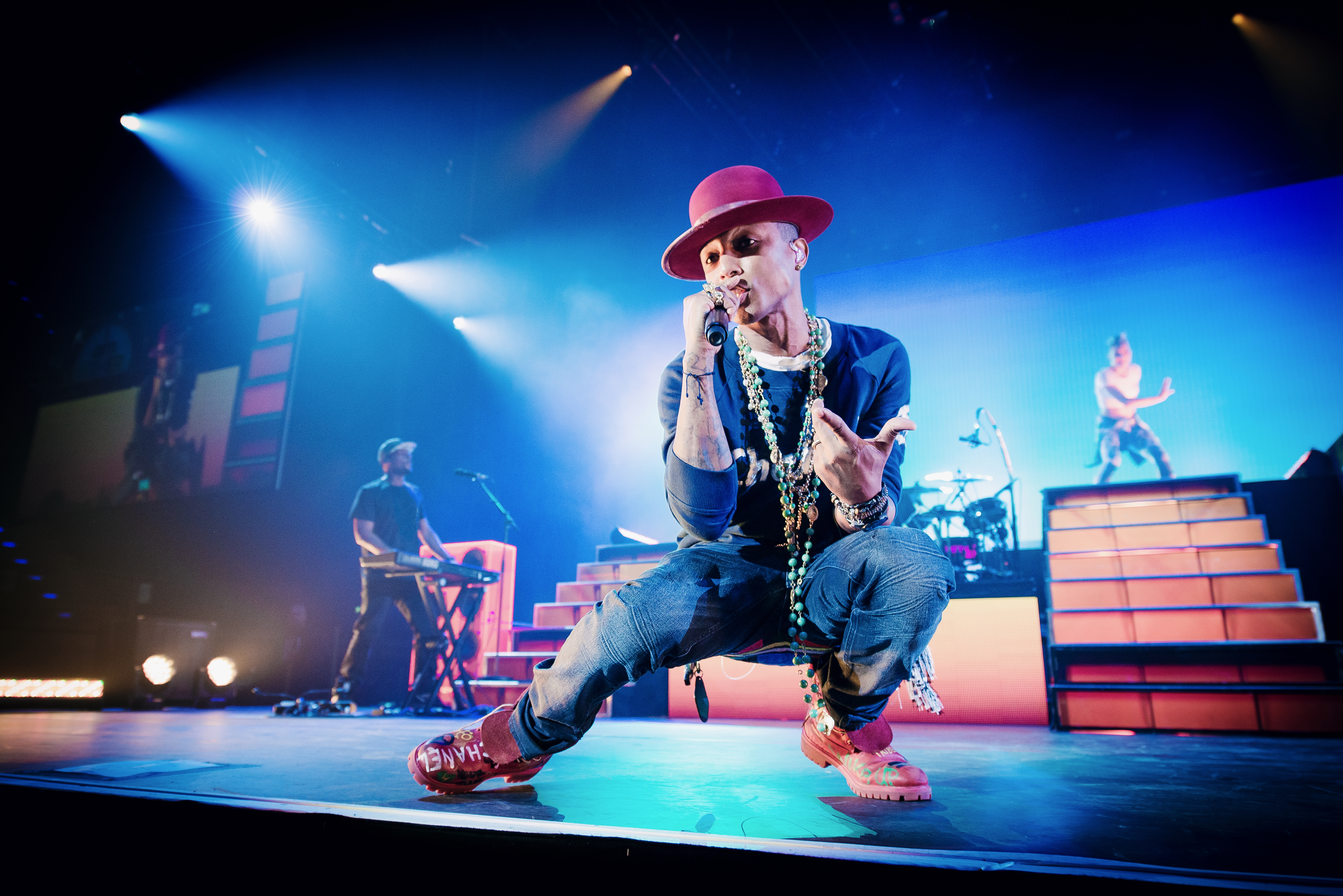 Pharell Williams in Concert